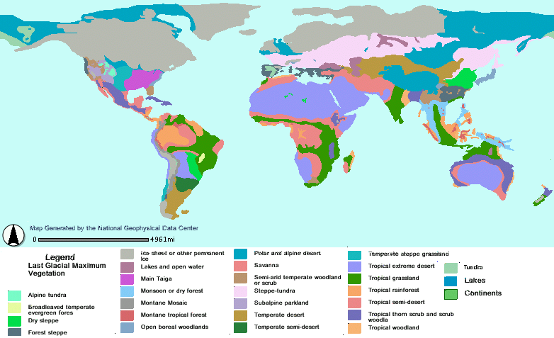 Below is xfer upload using Image:Last glacial vegetation map.png as source. Original uploader information 02:52, 5 May 2005 . . User:SEWilco (Talk | contribs) . . 782×549 (133,566 bytes) (Last Glacial Maximum Vegetation Reconstructed vegetation cover at the Last Glacial Maximum period ~18,000 years ago-( ~16th millennium BC), describing the type of vegetation cover present, based on fossil pollen samples recovered from lake and bog sediments. Derived from reconstructions by Jonathan Adams in the QEN Atlas, and Ray and Adams (2001). Last Glacial Maximum Vegetation Reconstructed vegetation cover at the Last Glacial Maximum period ~18,000 years ago, describing the type of vegetation cover present, based on fossil pollen samples recovered from lake and bog sediments.